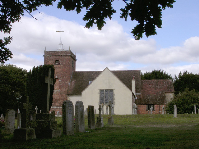 All Saints Church, Minstead, New Forest. The parish church at Minstead is an architectural jumble, built over many centuries. This view is from beneath the oak tree at the edge of the churchyard, next to the grave of Sir Arthur Conan Doyle.